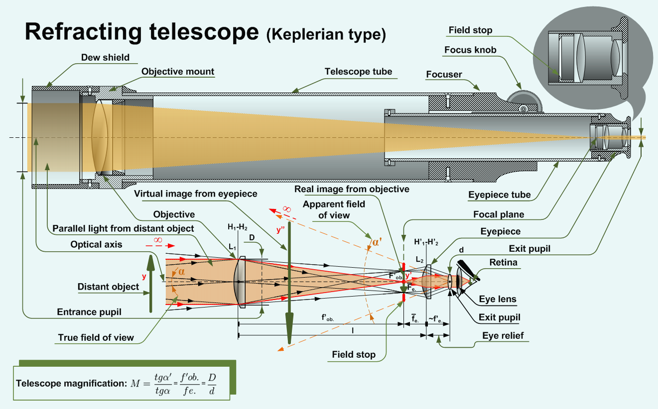 Keplerian type telescope